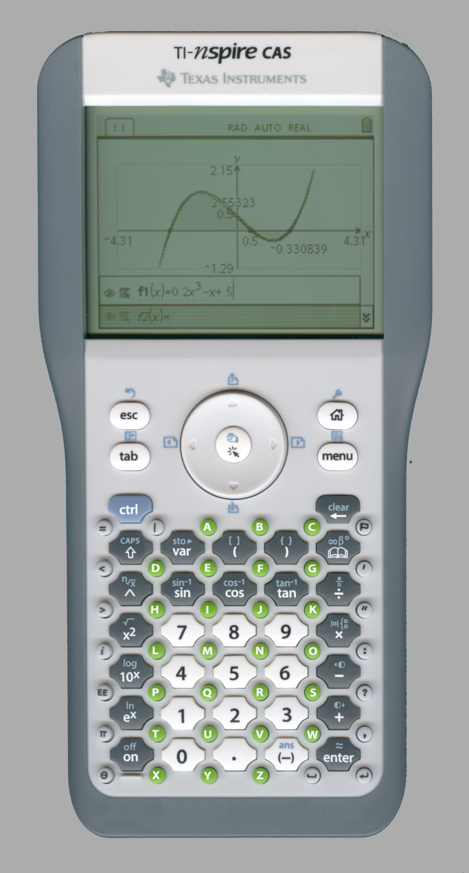 Ti-nspire cas click